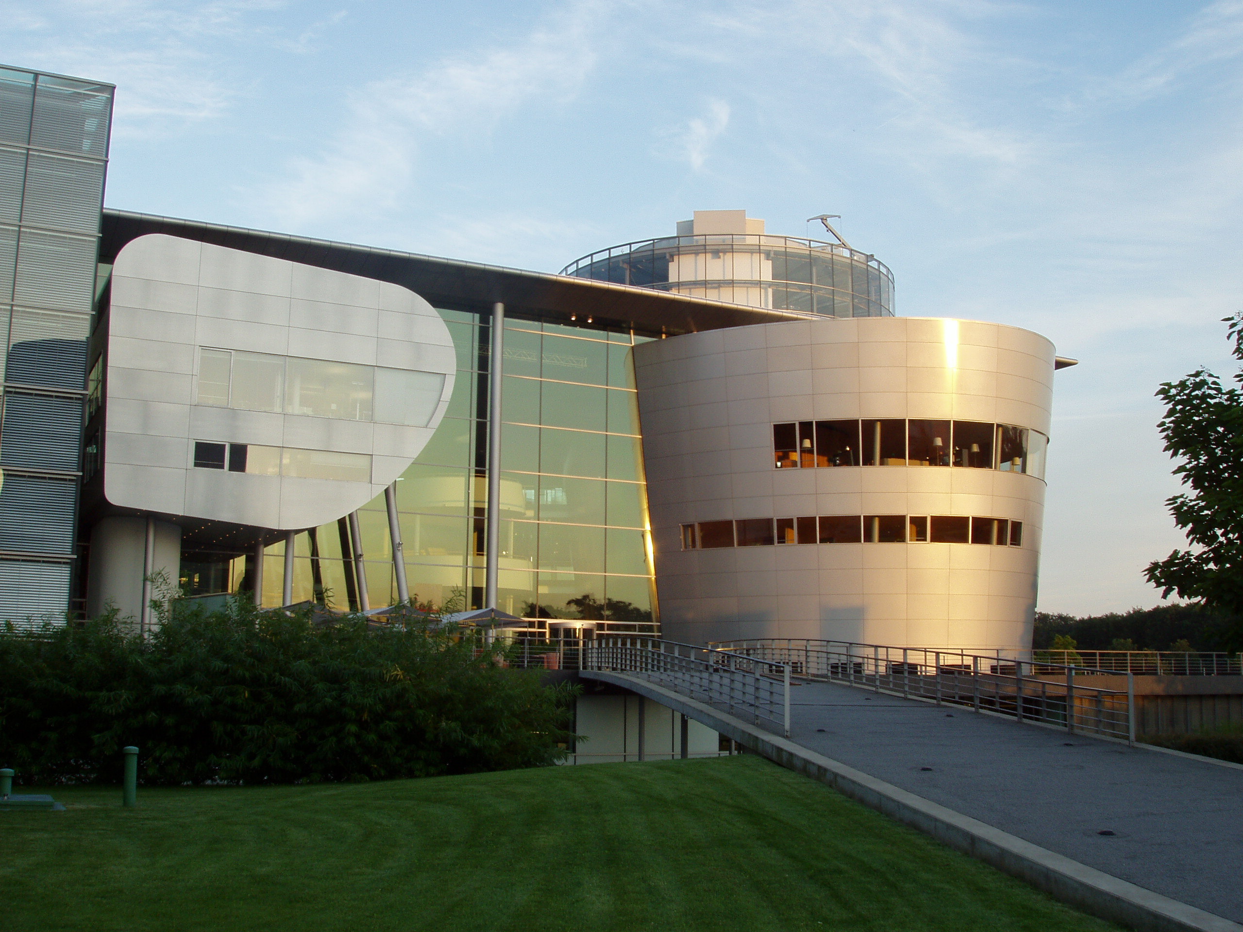 Glass manufacture an automobile production plant owned by German carmaker Volkswagen in Dresden (July 2005, with Olympus C-50 Zomm)